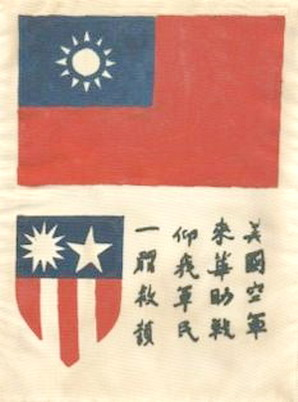 "This foreign person has come to China to help in the war effort. Soldiers and civilians, one and all, should rescue, protect, and provide him with medical care." The text more precisely say "American Air Force come to China to help in fighting, respect my military and civilians aid" 美國空軍來華助戰仰我軍民一體救護)